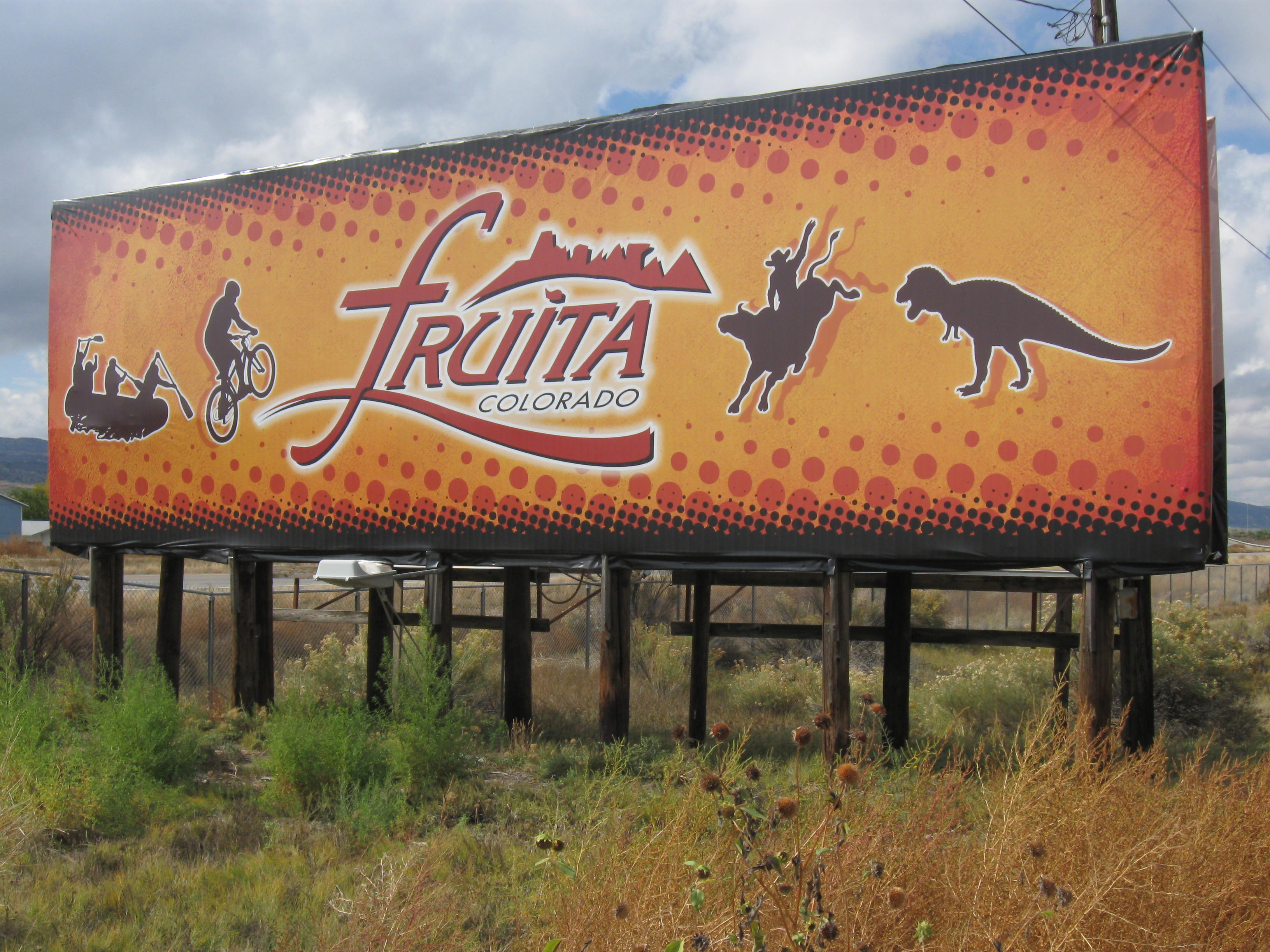 This is the Fruita City sign seen along Interstate 70 before exit 17 turnoff. It highlights the four most notable activities that Fruita residents take part in